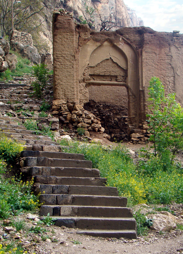 Haji Bulagi house in Maku.